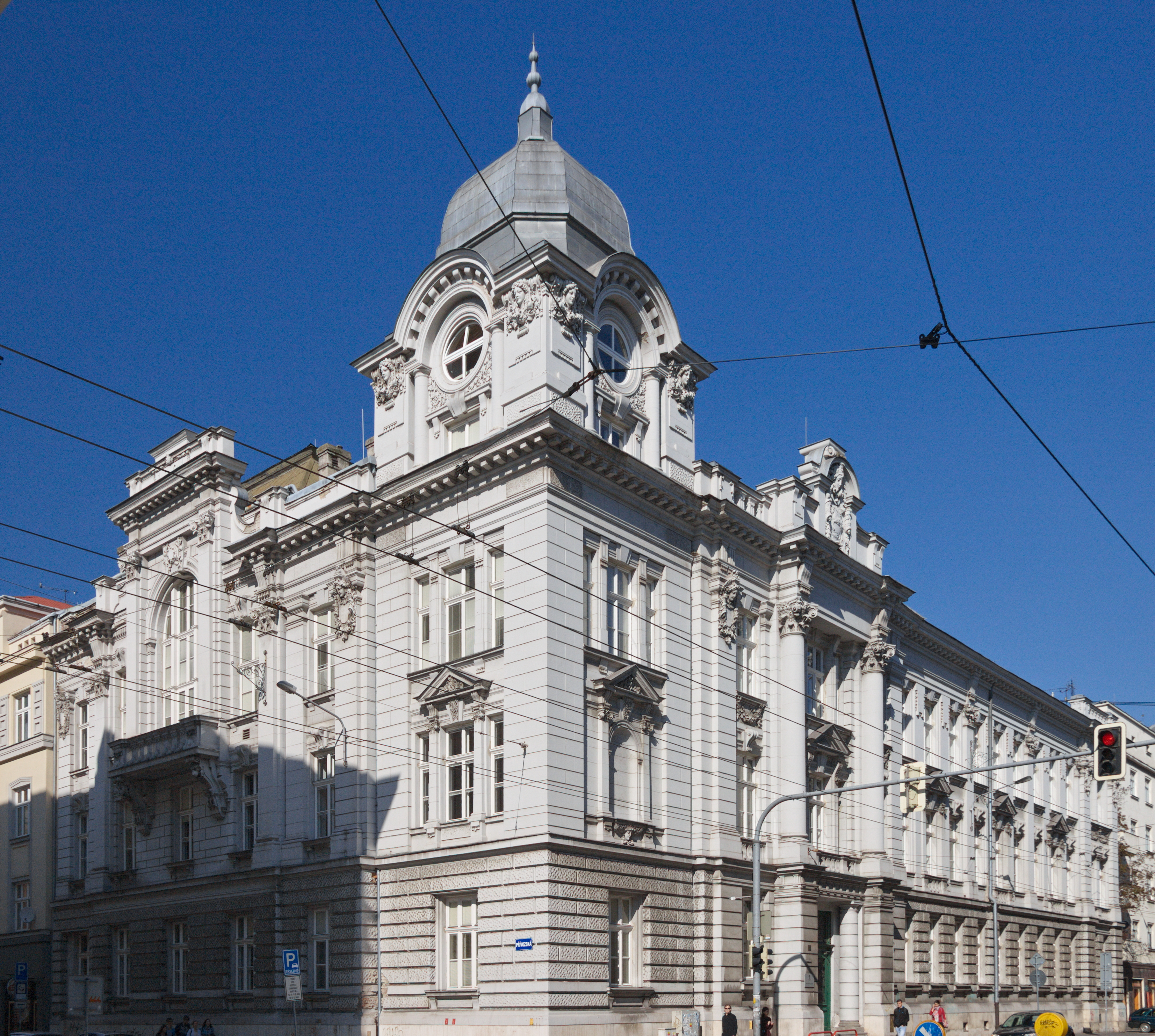 University of Ostrava - Faculty of Education, Moravská Ostrava, 16 Českobratrská street, Ostrava. Moravian-Silesian Region, Czech Republic.